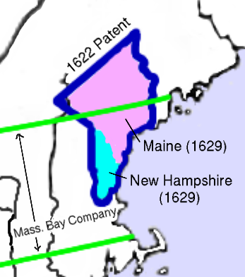 The 1622 grant of the Province of Maine between the Merrimack River and the Kennebec River is shown outlined in blue. The later division into the Province of New Hampshire and Province of Maine is shown by shading. © 2004 Matthew Trump.